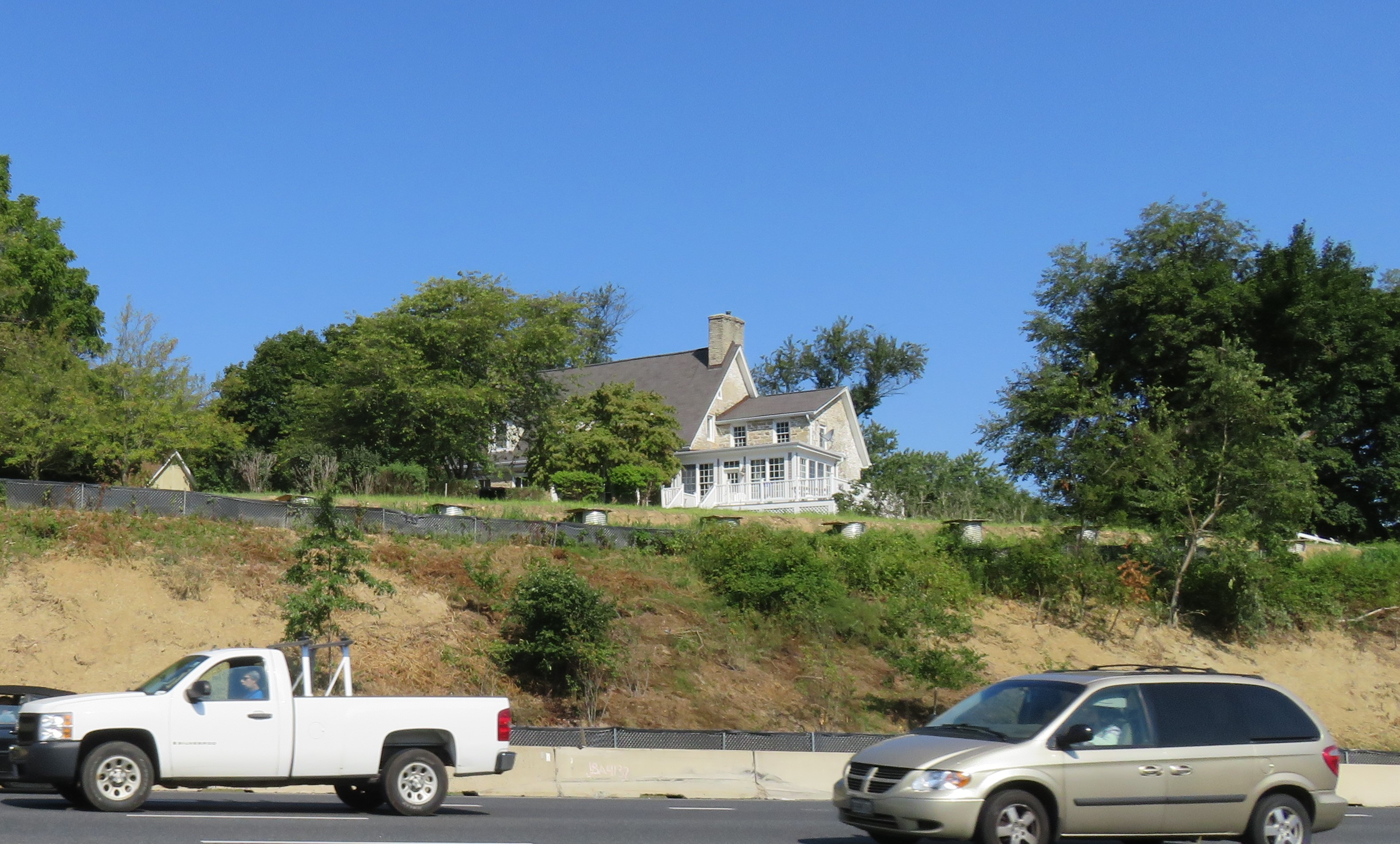 Athol Manor